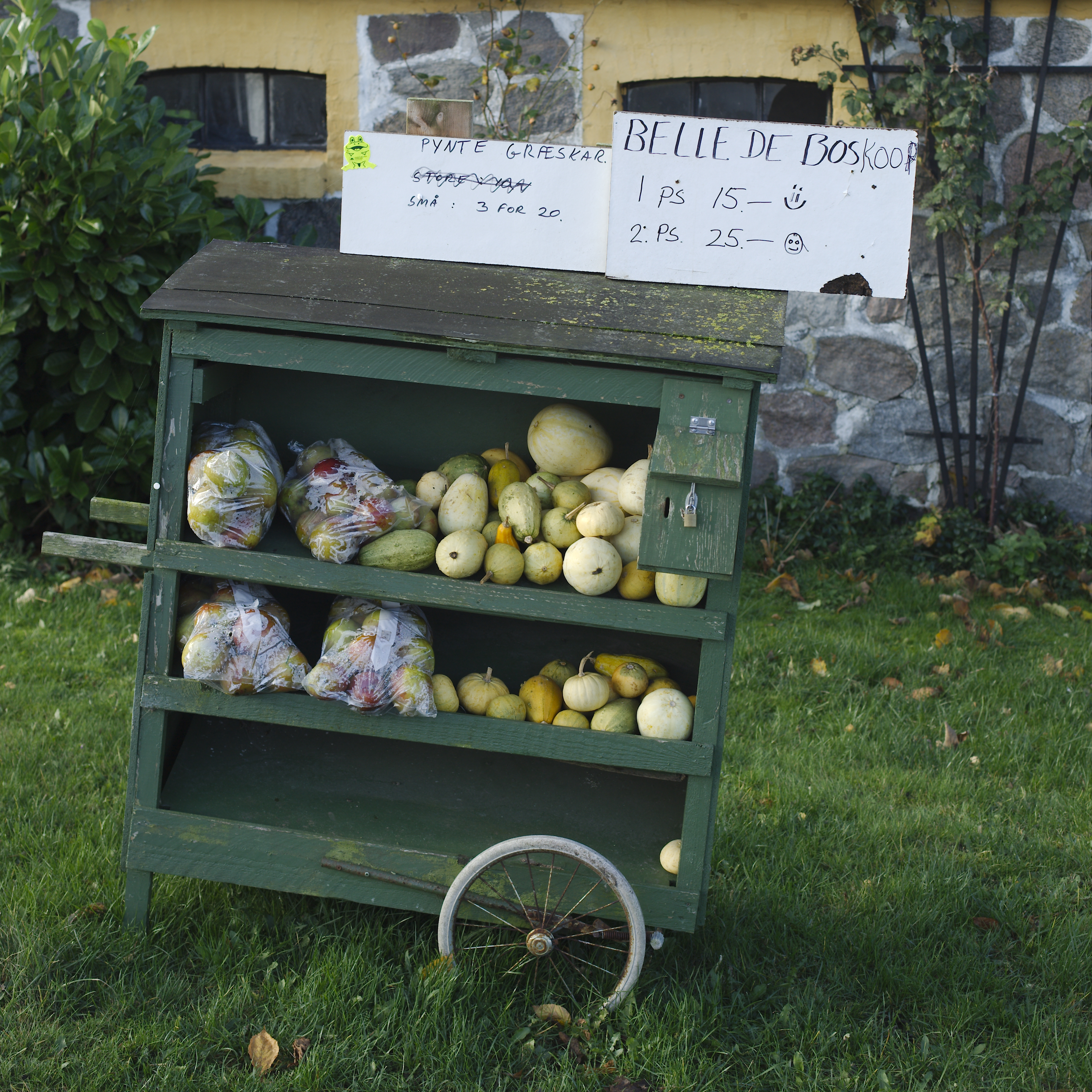 roadside stall in Åbo near Aarhus, Denmark